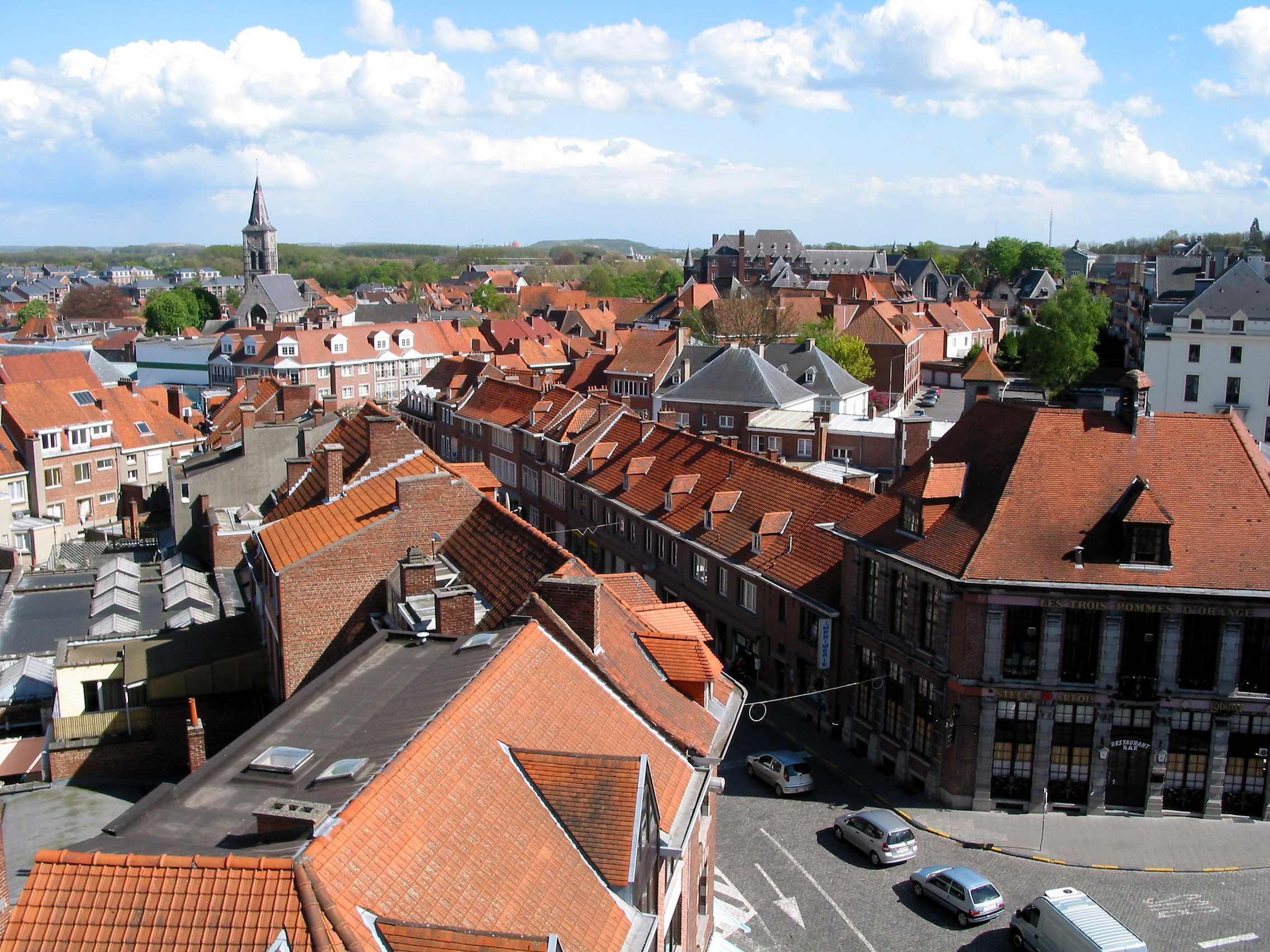 Tournai (Belgium), view on the Nort-Eastern part of the city and the St. Nicolas church (XII-XVth century)